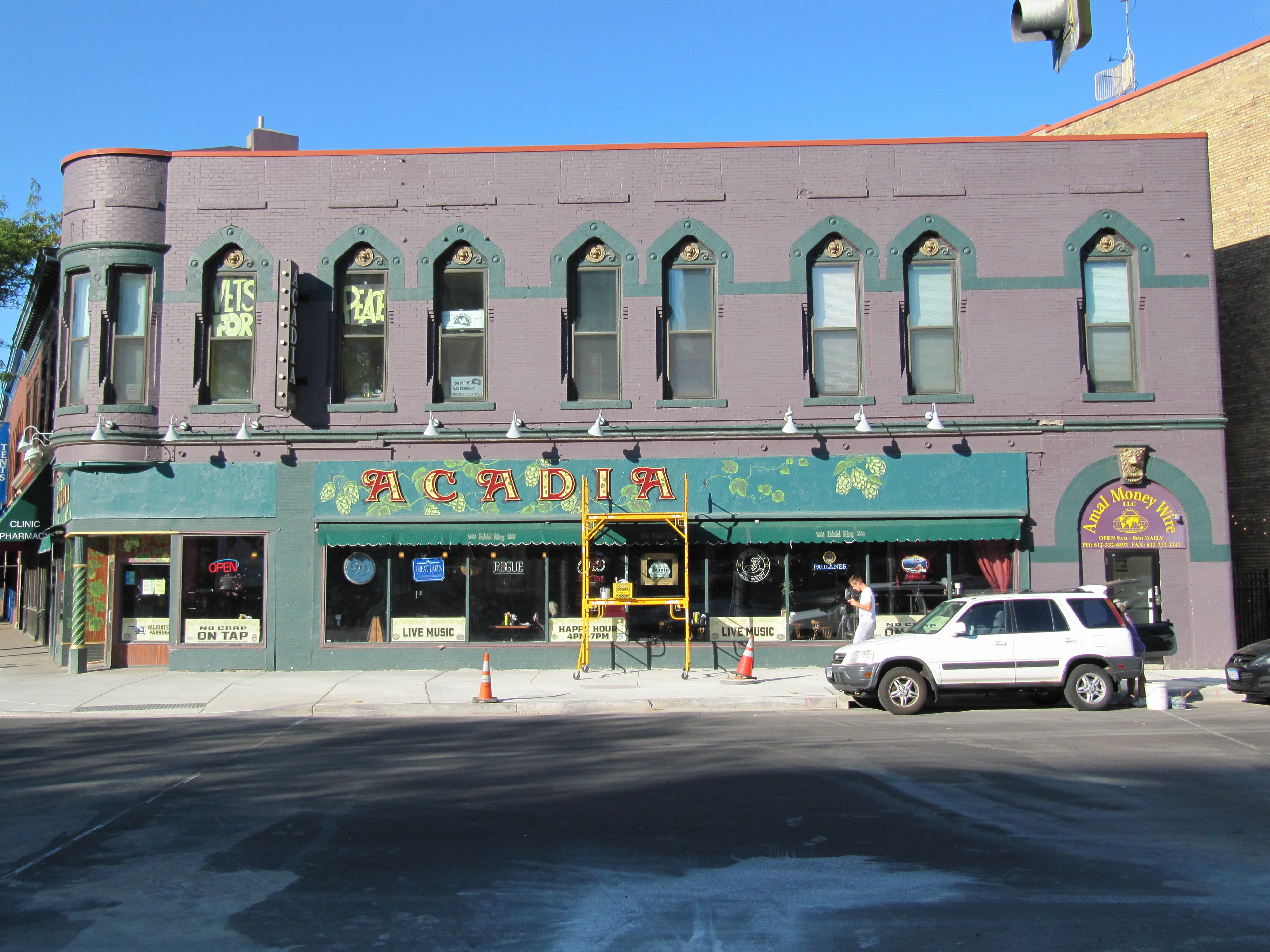 Acadia Cafe. Cedar Avenue and Riverside Avenue. Cedar-Riverside, Minneapolis, Minnesota.